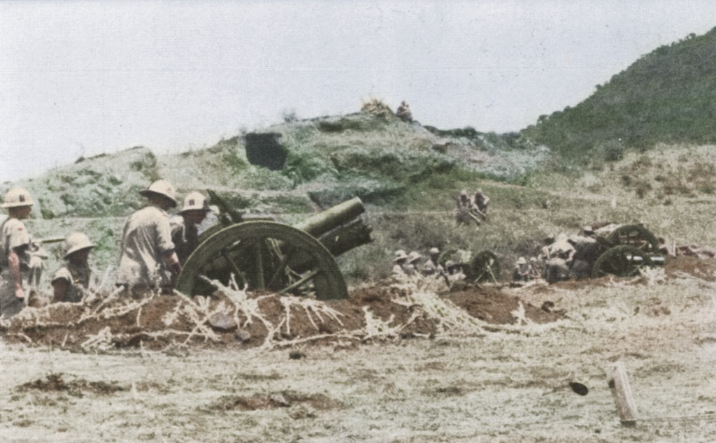 A battery of South African 4.5-inch howitzers of 4th Field Brigade, S.A.A. comes into action at Amba Alagi.